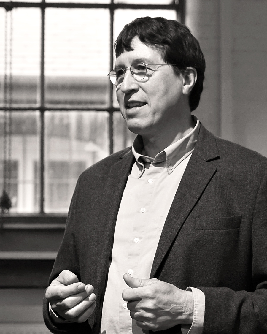 Minik Rosing - Danish professor in geology at University of Copenhagen, Denmark, - here at Fotografisk Center, Copenhagen, Denmark - March 2017